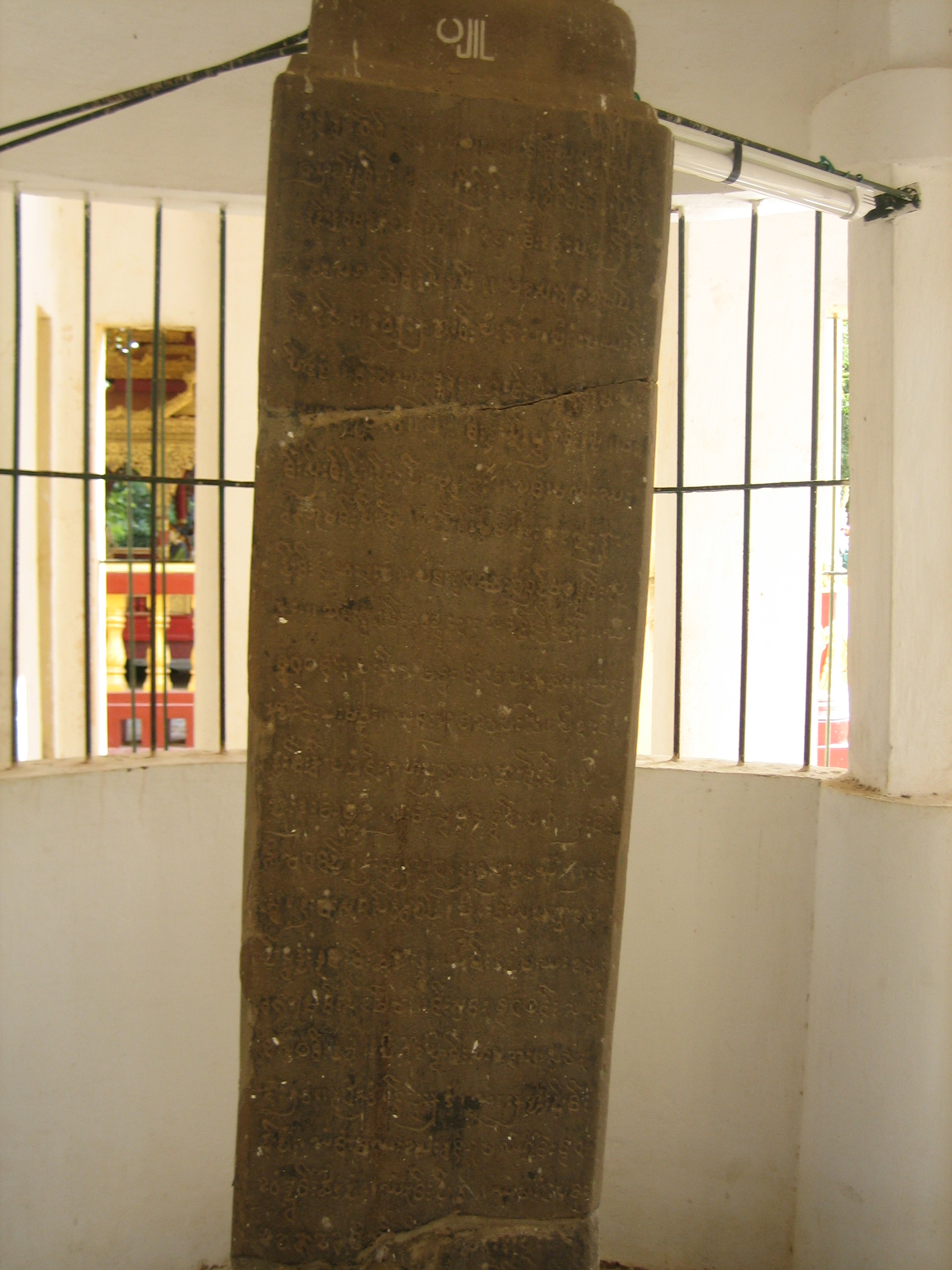 Myazedi Inscription in Pyu language -- Gubyaukgyi Temple, Bagan, Myanmar